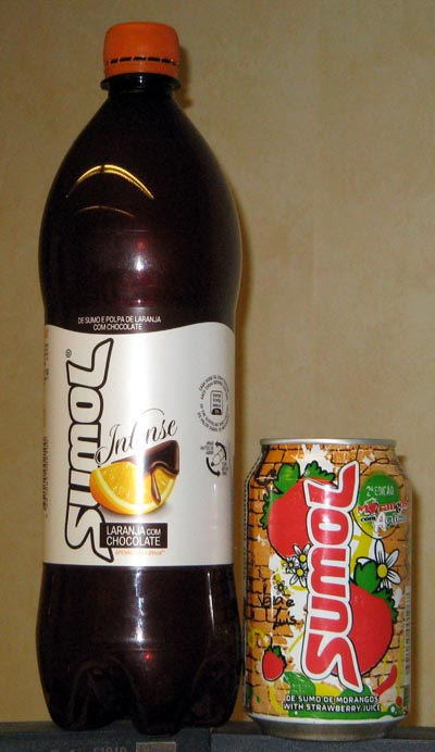 Photography from bottle "Sumol Intense" and a can "Sumol Morango"